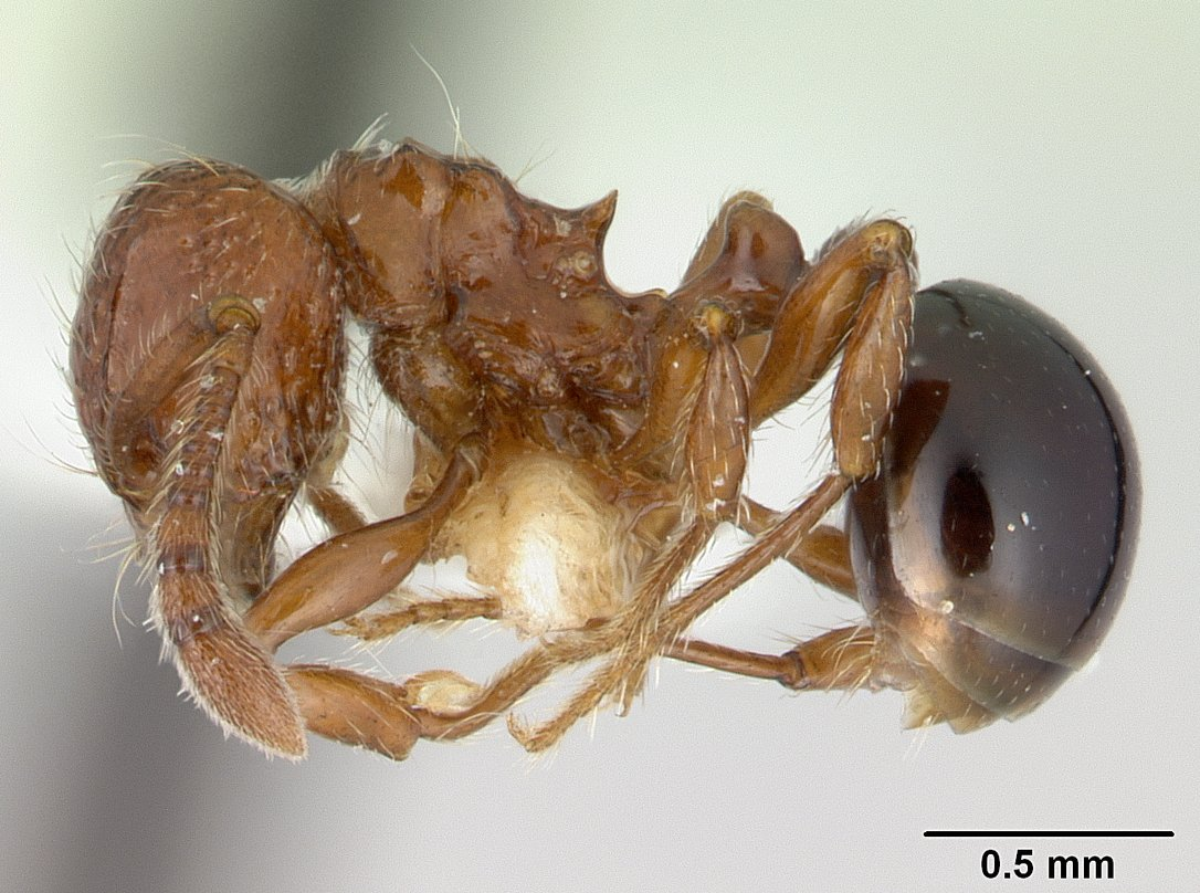 Profile view of ant Pristomyrmex africanus specimen casent0178302.